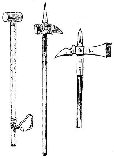 Luzerne Hammer (right) - illustration from a book "Handbuch der Waffenkunde" Das Waffenwesen in seiner historischen Entwicklung vom Beginn des Mittelalters bis zum Ende des 18 Jahrhunderts" by Wendelin Boeheim, Leipzig, 1890